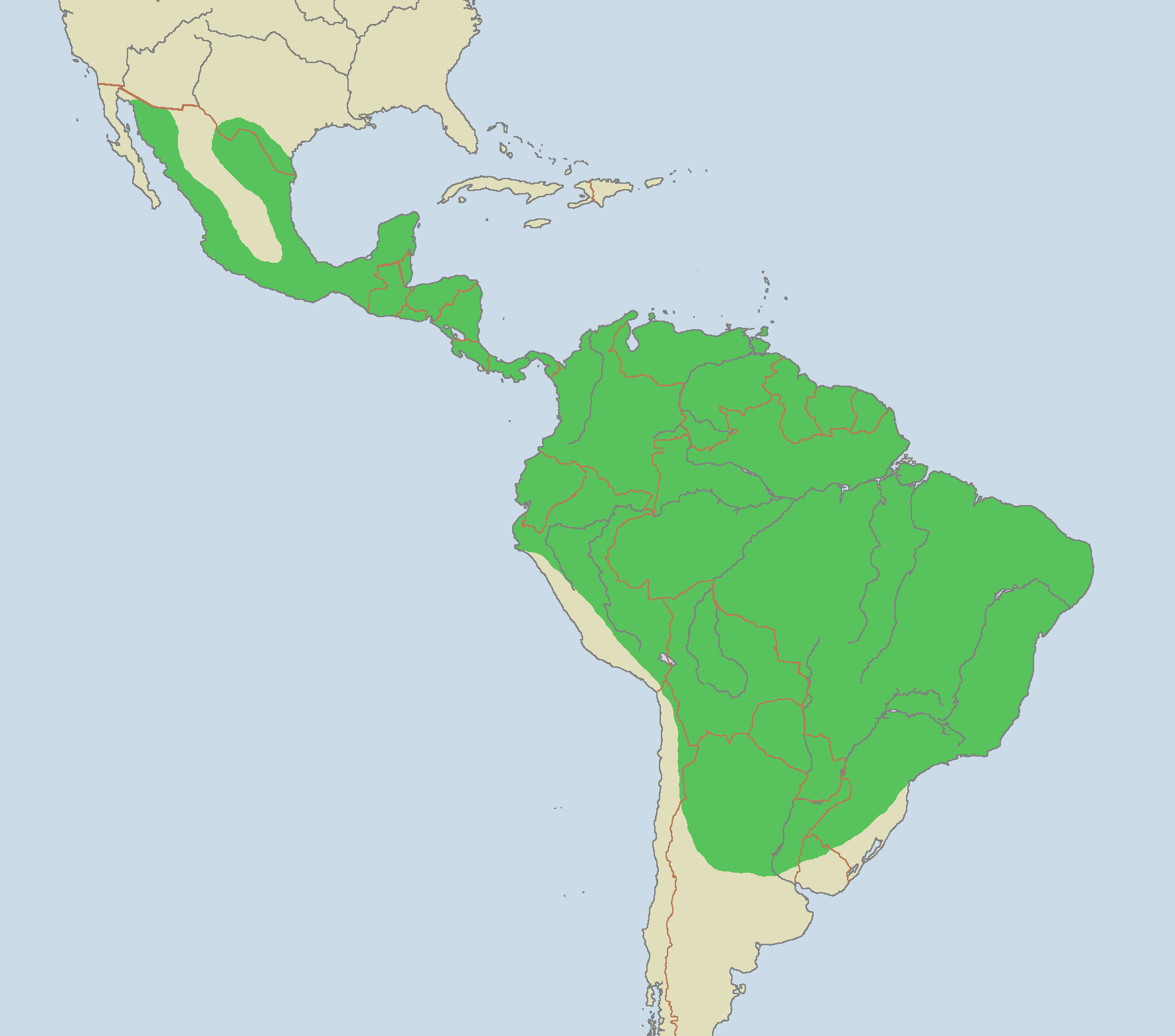 The range of the ocelot. Made starting with Brion VIBBER's maps, and based on [1], [2].